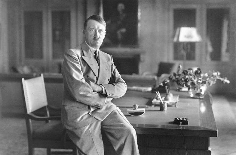 Obersalzberg, Berghof, Adolf Hitler in office seating on his desk. Bavarian national library, Hoffmann phototheque, image number hoff-1956. Picture of 1936, published in IB in 1937, special issue titled : Adolf Hitler's Germany.